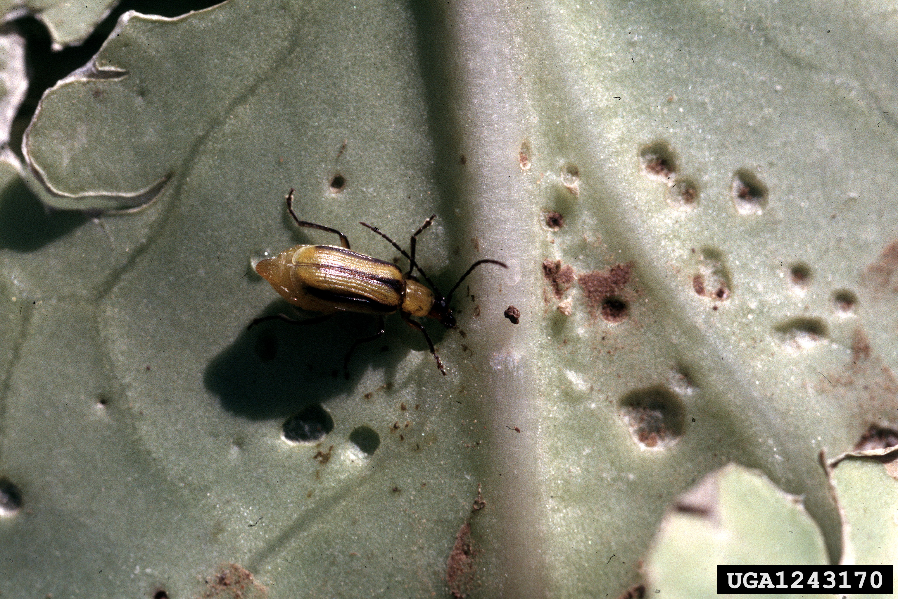 Adult of Western corn rootworm (Diabrotica virgifera virgifera) chewing cabbage leaf (Brassica oleracea var. oleracea